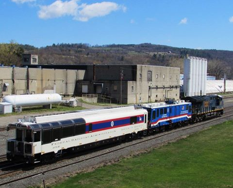 Federal Railroad Administration Inspection Train in St. Johnsville, NY on April 27,2016